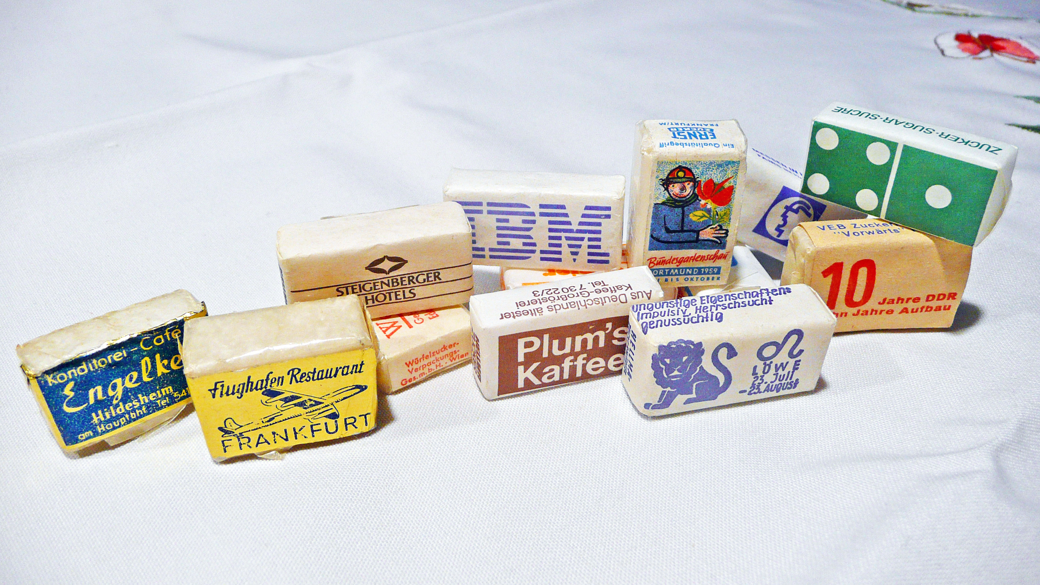 Sugar cubes (examples)